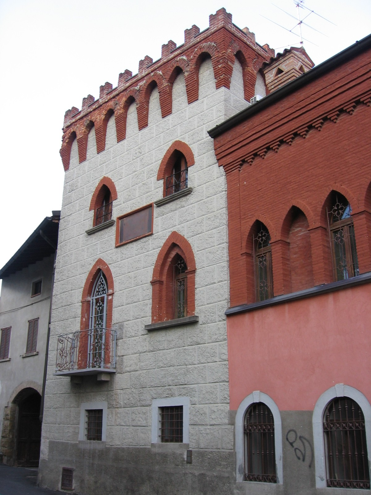 Torre Boldone, Bergamo, Italia